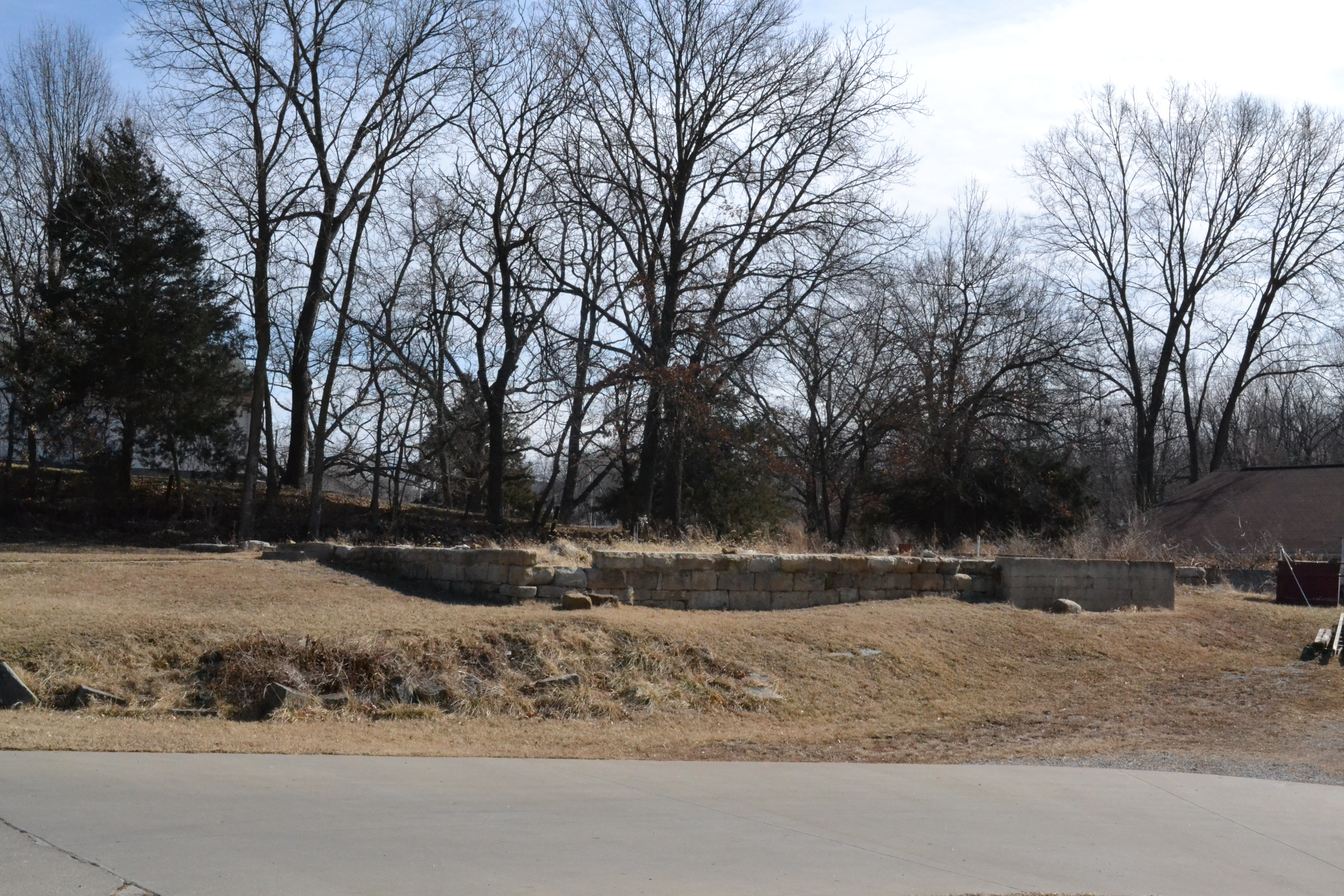 The remnants of the Howard School in Warrensburg, Missouri. Demolished in 2015 after the roof collapsed.